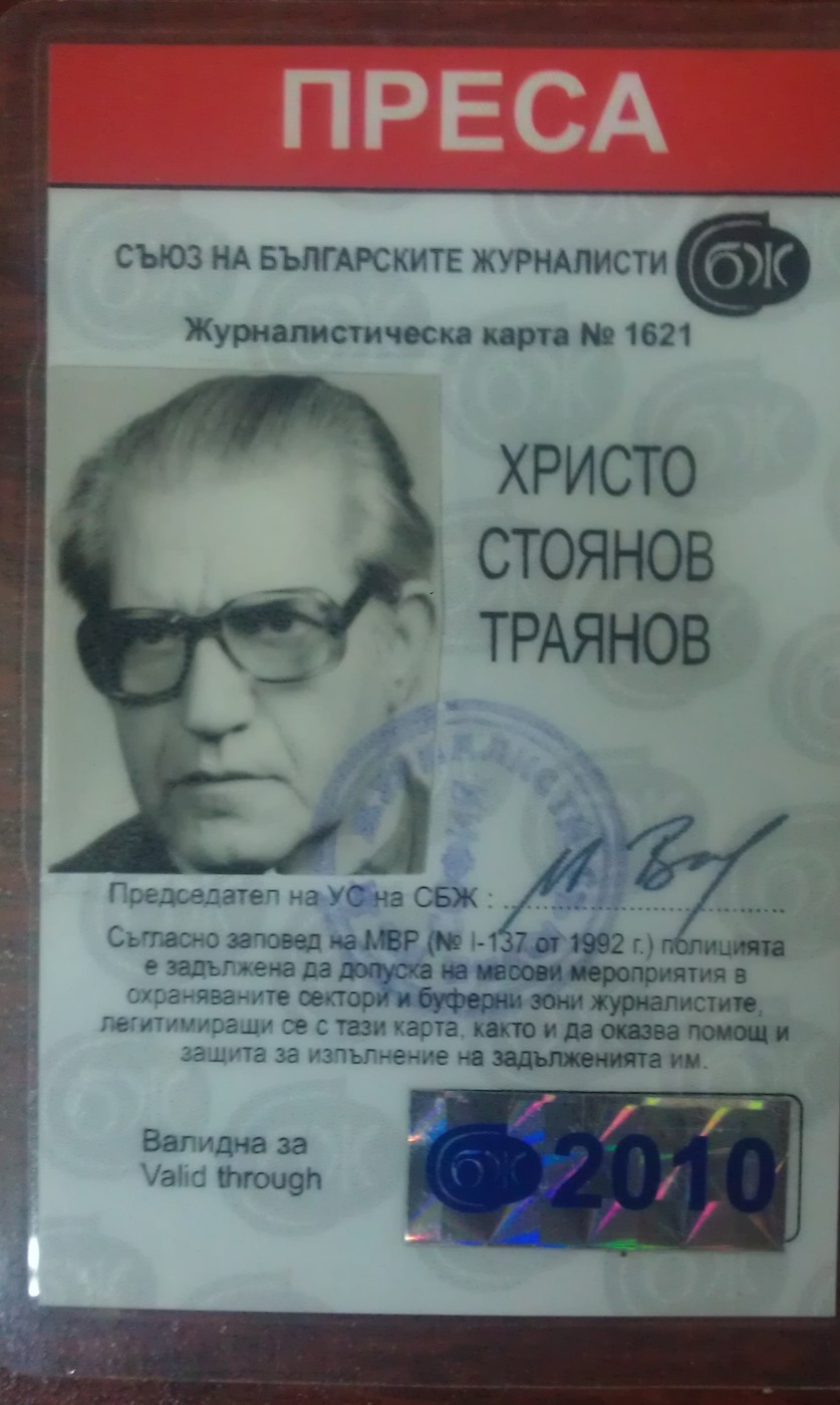 Членска карта на СБЖ